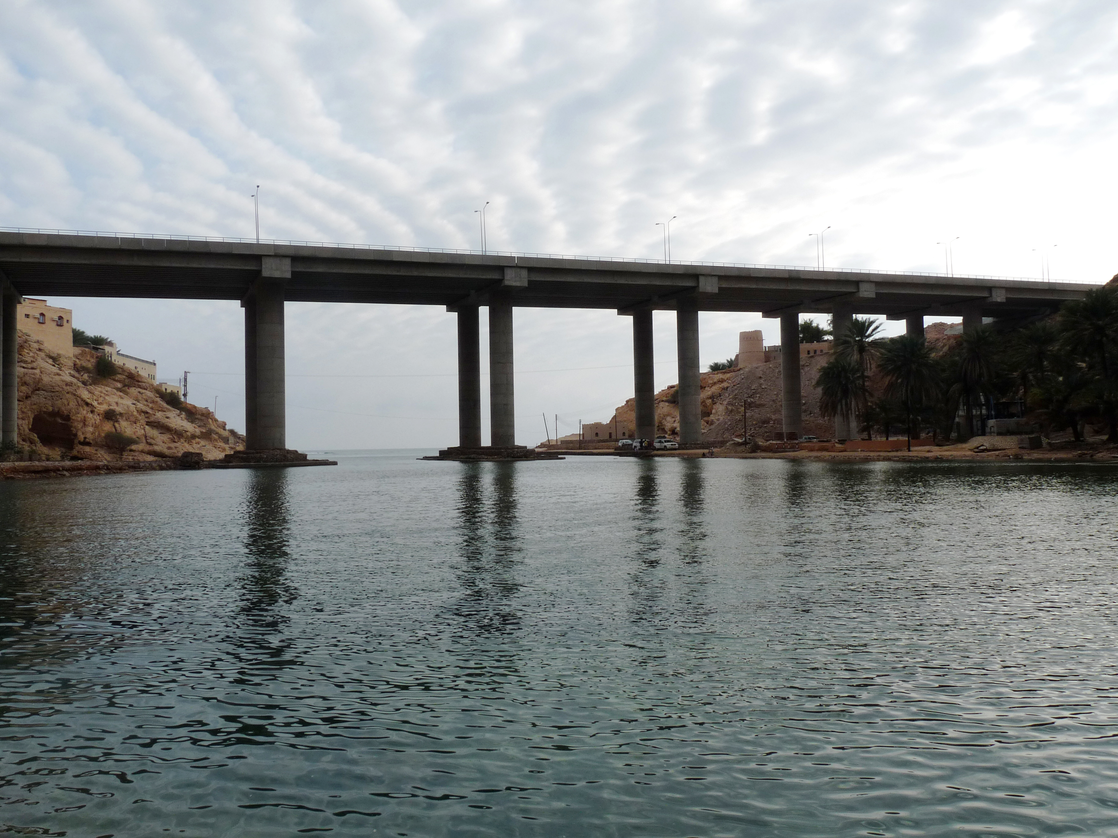 Motorway bridge across Wadi Shab (Oman)